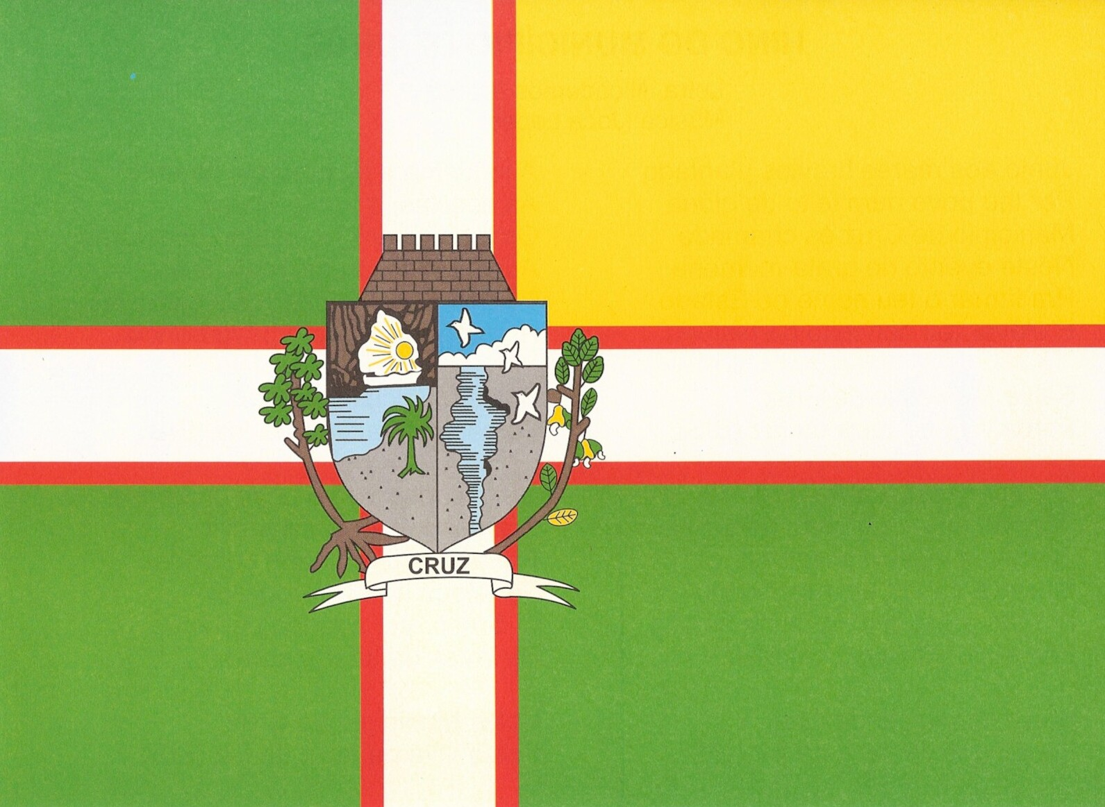 Bandeira municipal de Cruz, Ceará, Brasil. Criação de: Manoel Valdery da Rocha.